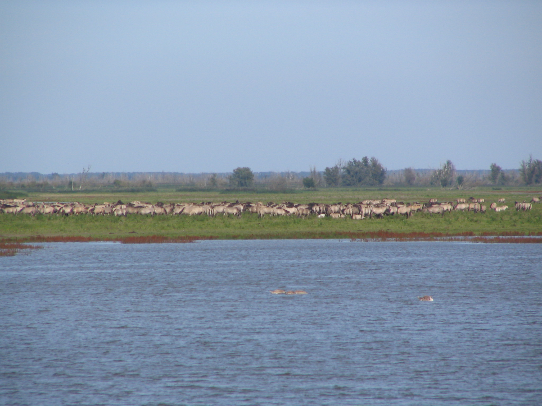 Koniks in the Oostvaardersplassen nature reserve.